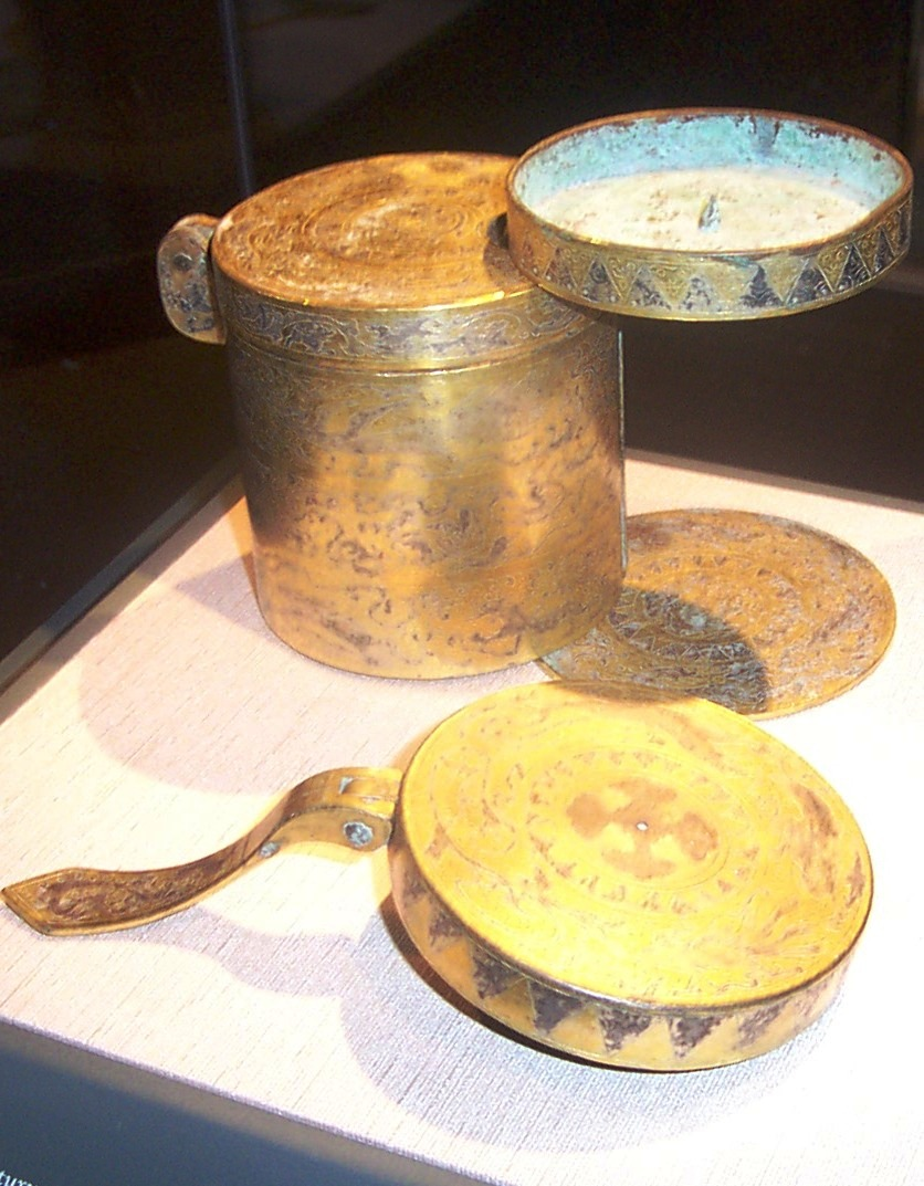 A 2nd century BC Chinese Western Han Dynasty gilt bronze lamp set painted with silver; this set actually comprises three lamps in one which fit into a single cylindrical form.